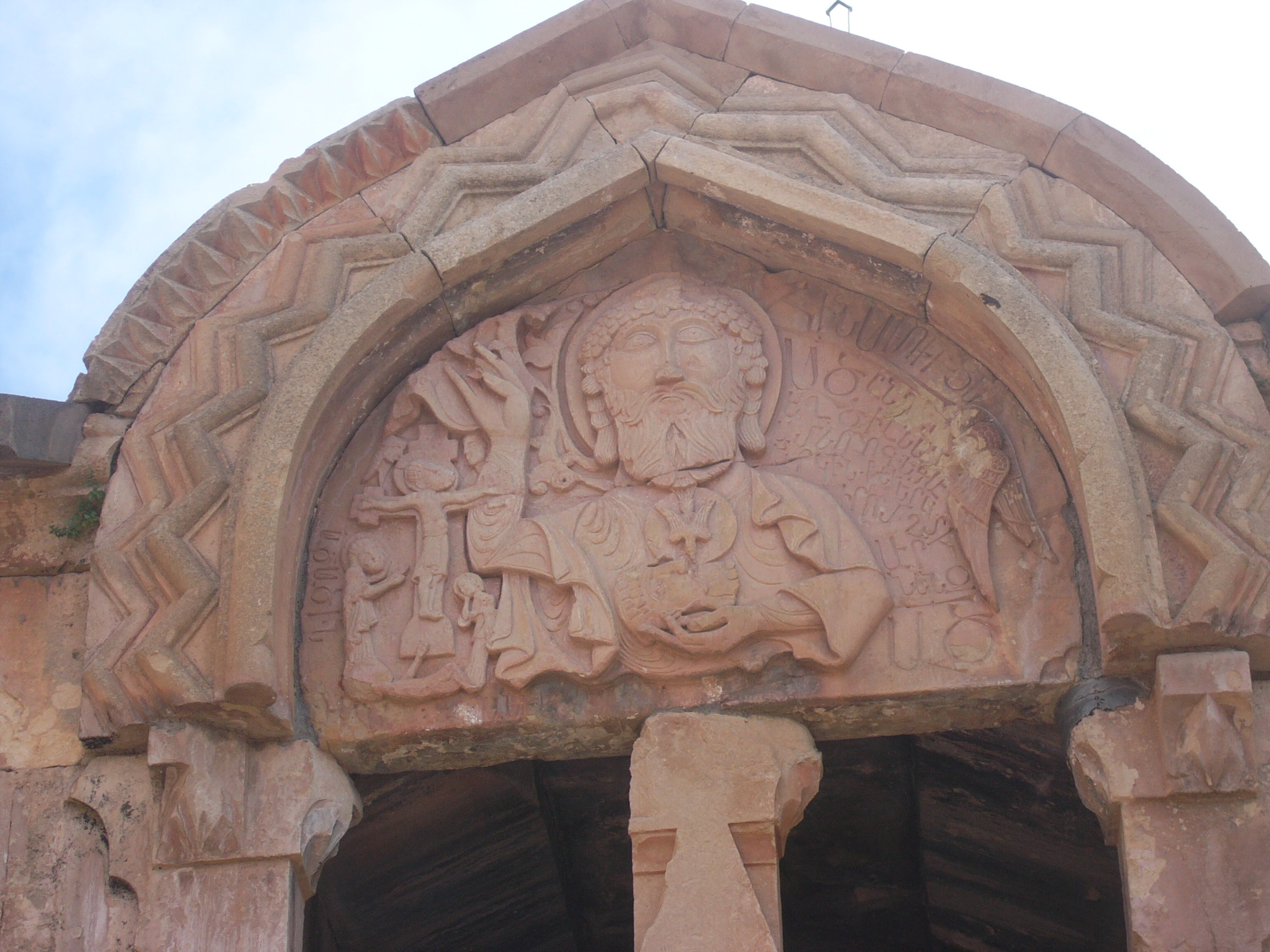 A striking depiction of God the Father on a tympanum over a window on St. Karapet Church in Noravank monastery, holding Adam's head in his bosom as the Holy Spirit descends on it in the form of a dove.